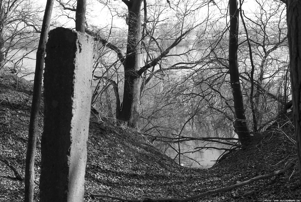 V-shaped valley in "Vierwald" near Boizenburg and parts of der East Germany border